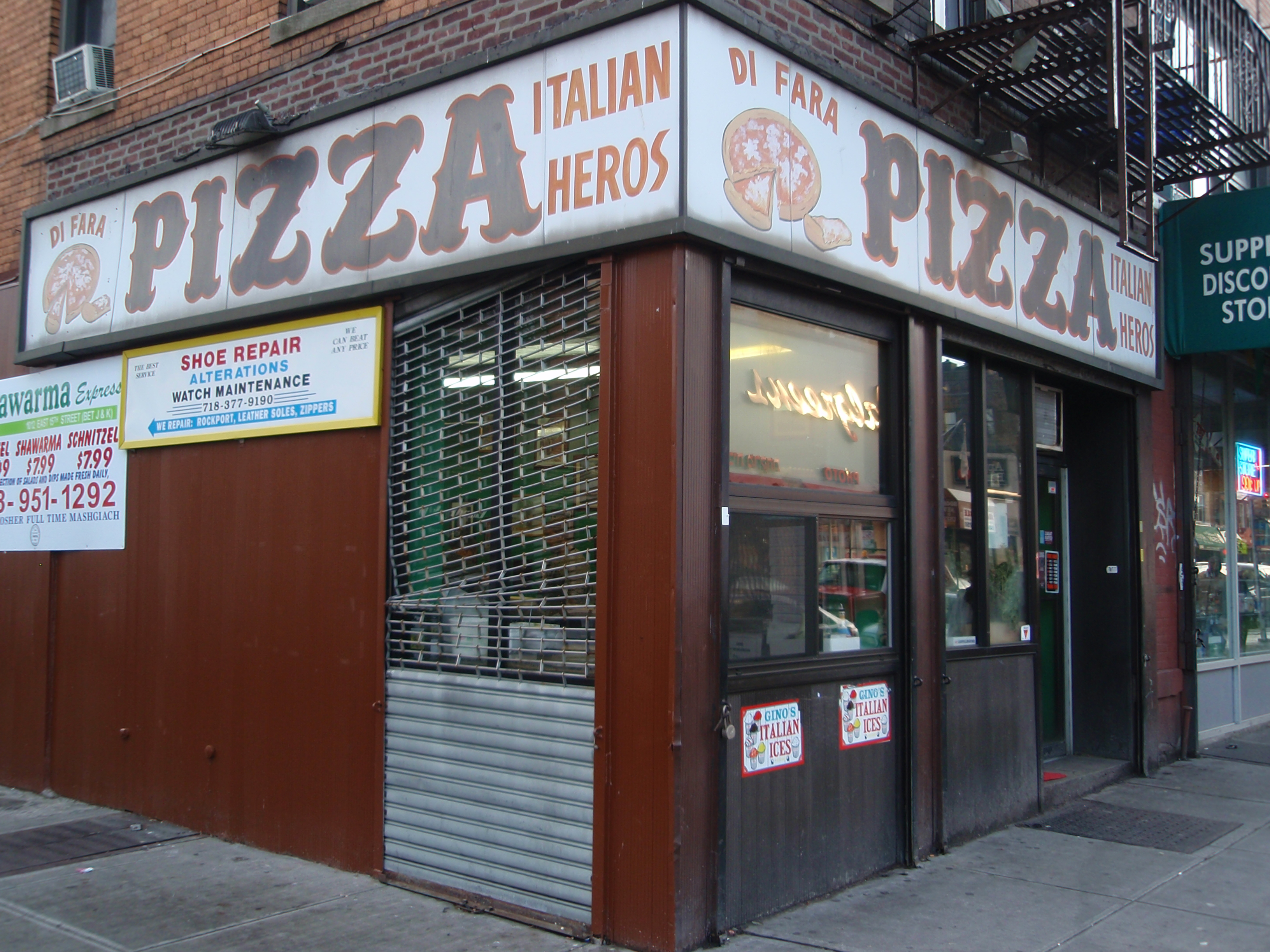 This is the exterior of the famous Di Fara's Pizza on Avenue J in Brooklyn, New York. Attribute to Jacob Uriel.